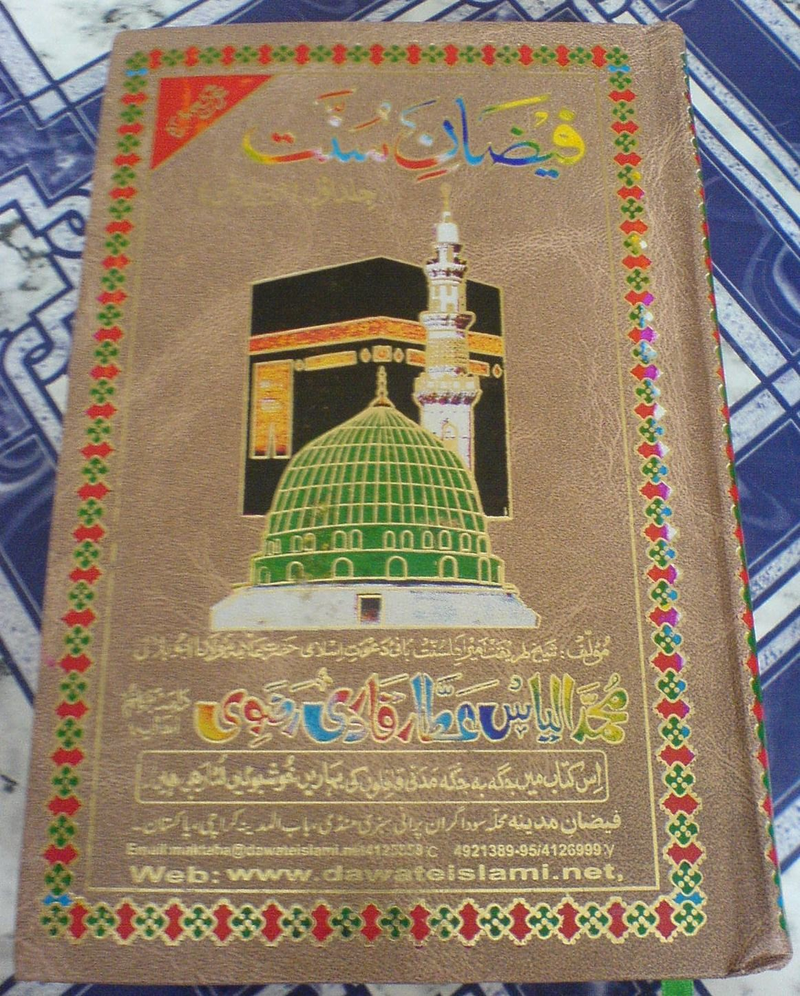 Title of Faizan E Sunnat, by Muhammad Ilyas Qadri